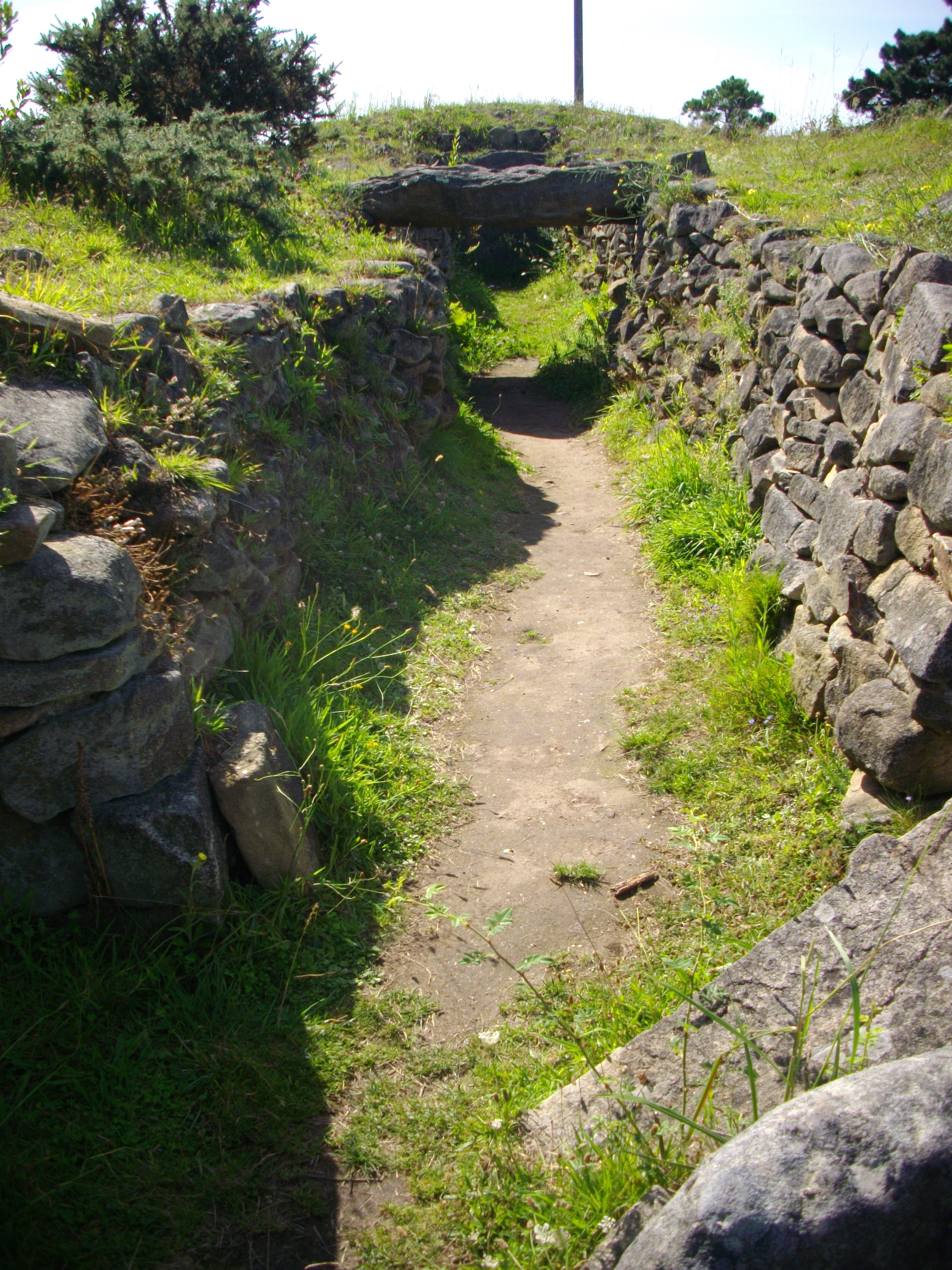 Dolmen of Bilgroix cape in Arzon (Morbihan, France) .